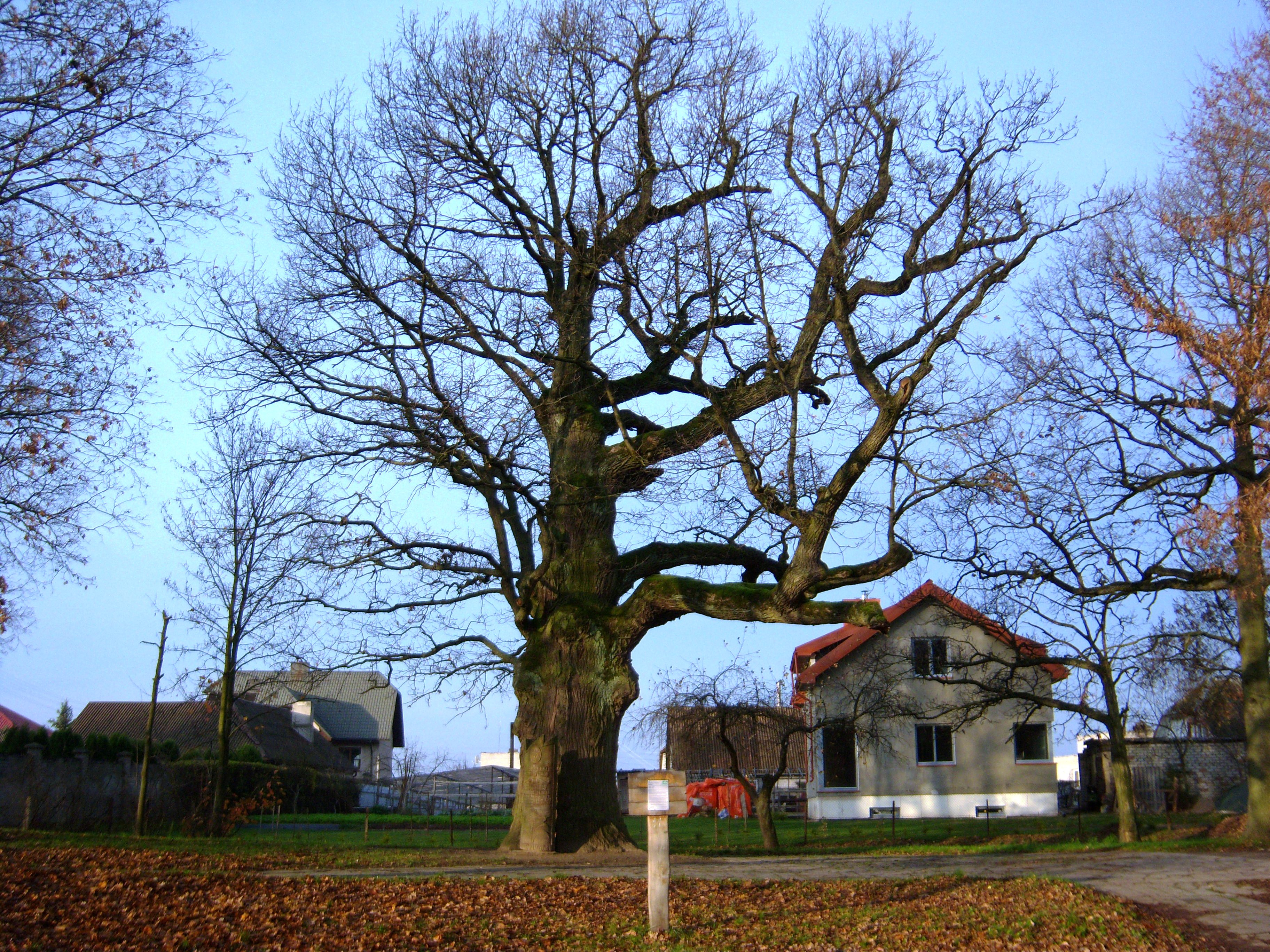 Oak of Mikalojus Daukša in Kėdainiai, Lithuania